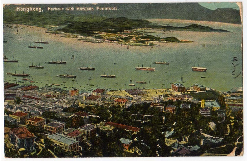 Hong Kong Postcard "Harbour with Kowloon Peninsula"